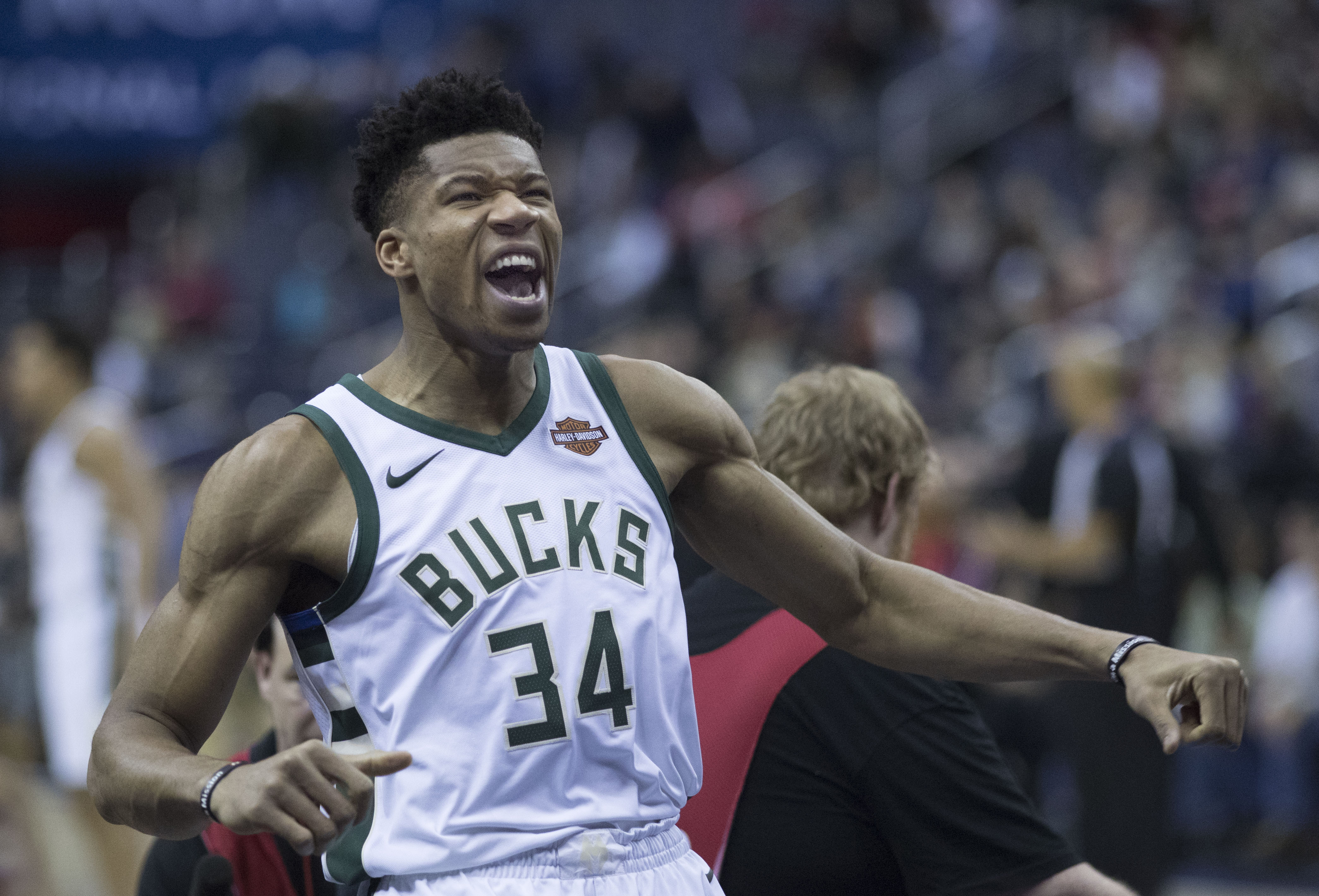 Giannis Antetokounmpo of the Milwaukee Bucks before the game against the Washington Wizards on January 15, 2018 at Capital One Arena in Washington, DC.